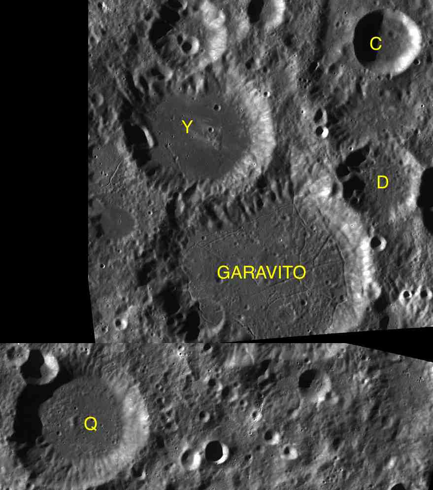 Parts of the charts LAC-119, LAC-131 used for the presentation